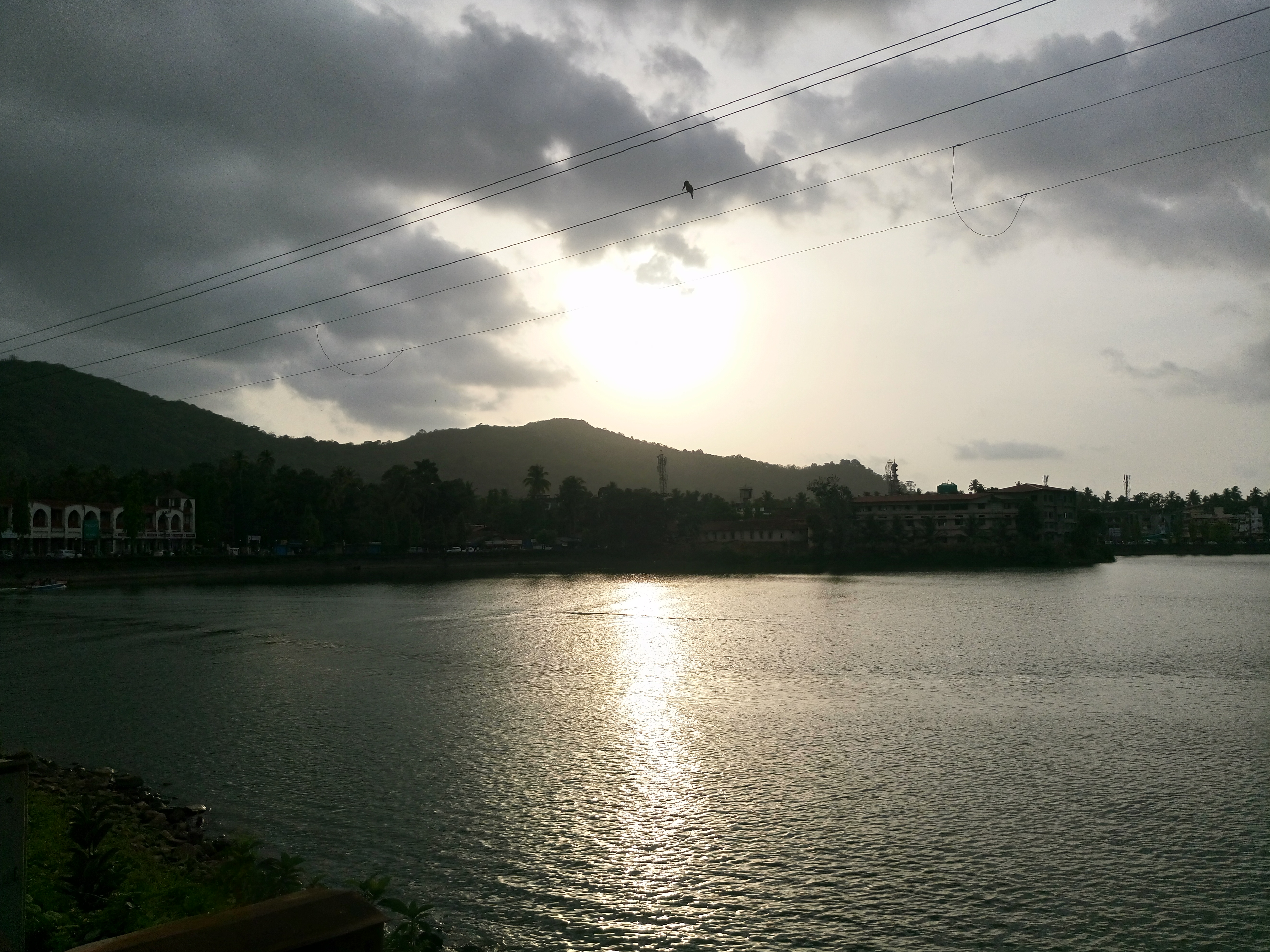 Peaceful evening at Sawantwadi